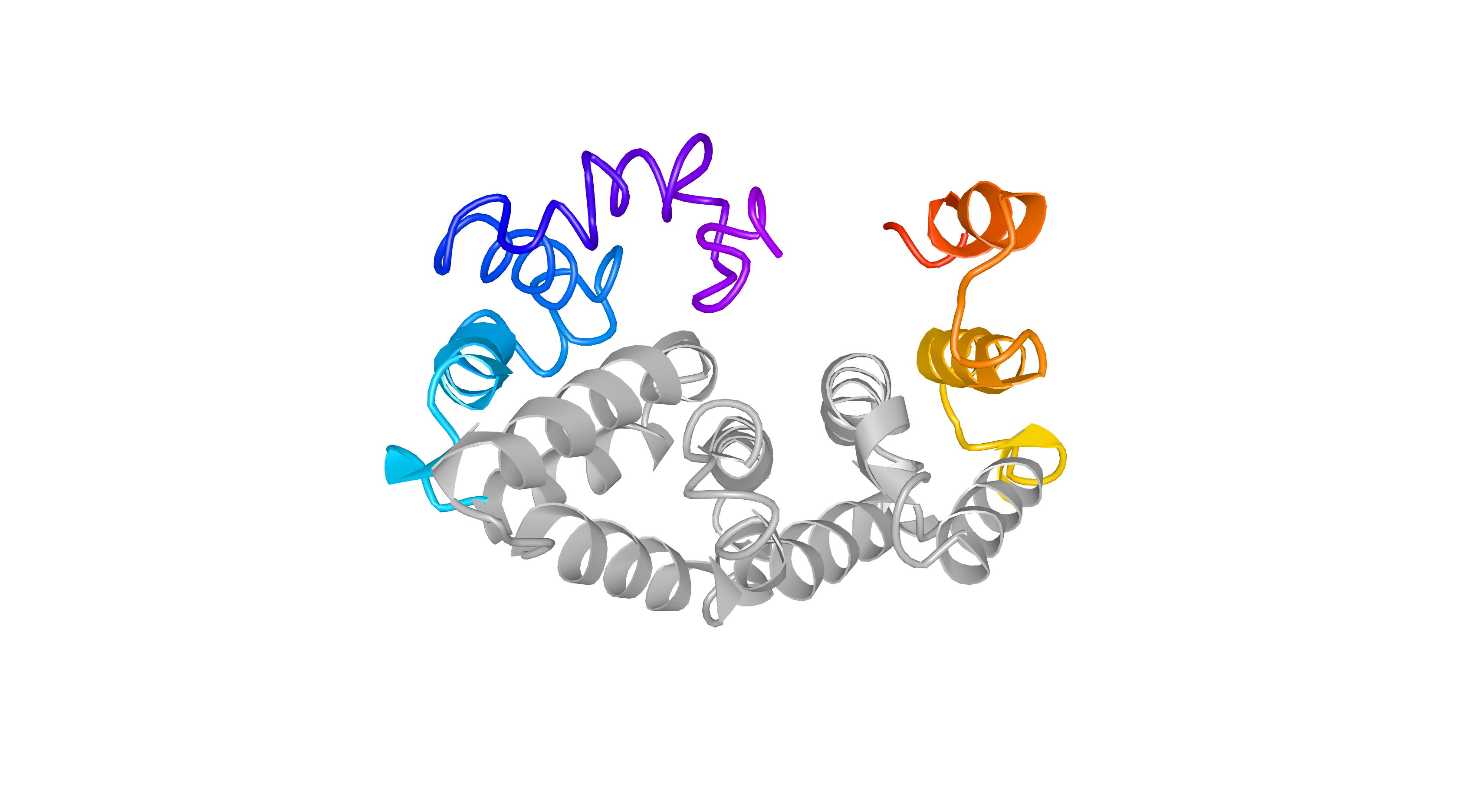 This is a model of the predicted tertiary structure of MIF4GD protein, as predicted by I-TASSER, and colored to show the MIF4G domain in a grey color. The N-terminus is located in the upper left corner, and the C-terminus is located in the upper right corner.